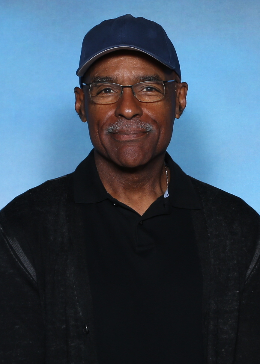 Michael Dorn at GalaxyCon Richmond in 2019